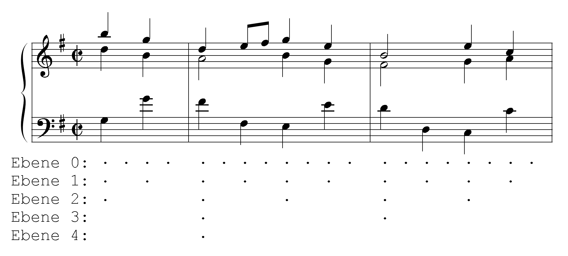 Gavotte from: J.S. Bach, French Suite Nr. 5, BWV 816 Measures 1-2 with added metrical structure. Ebene (German: level).